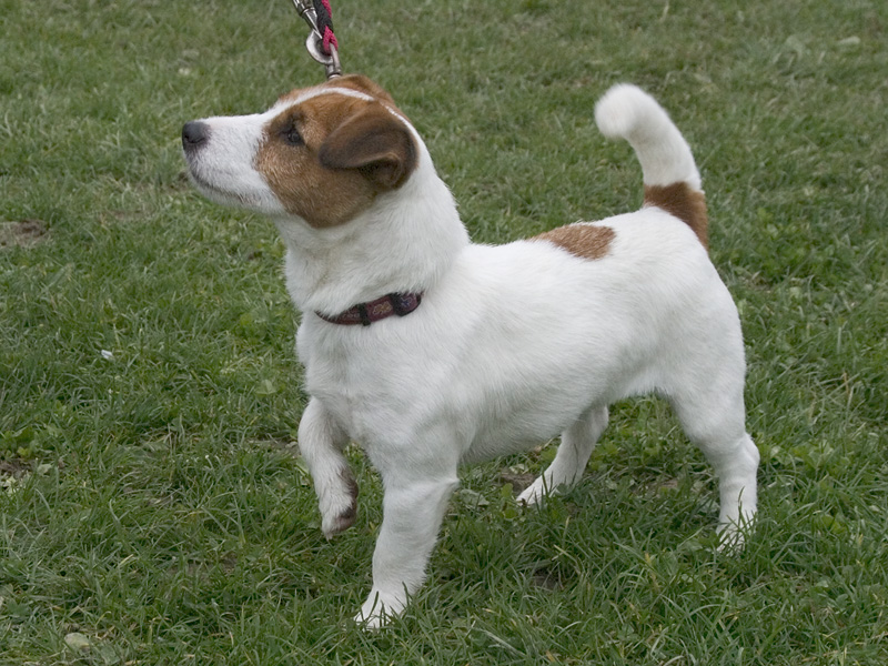 A smooth coated white-brown Jack Russell Terrier.